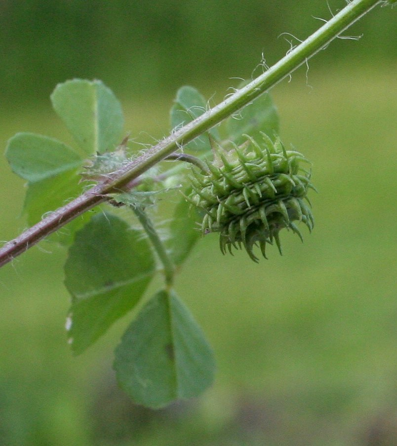 seed pods of Medicago arabica